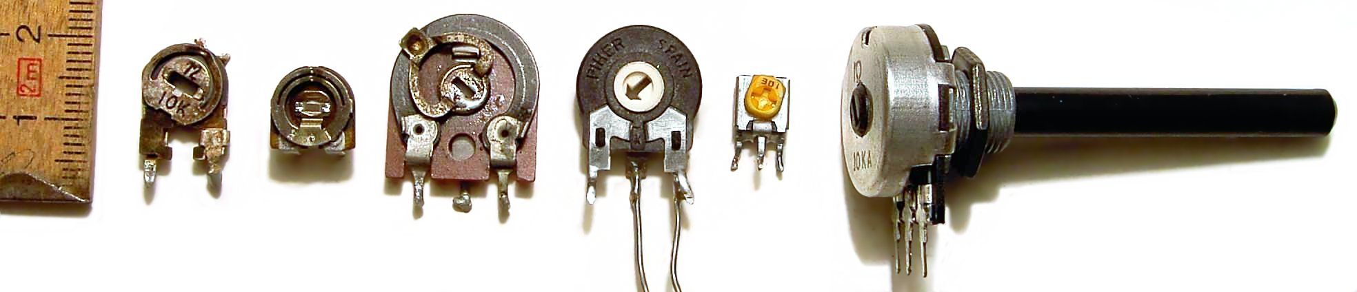 variable resistors